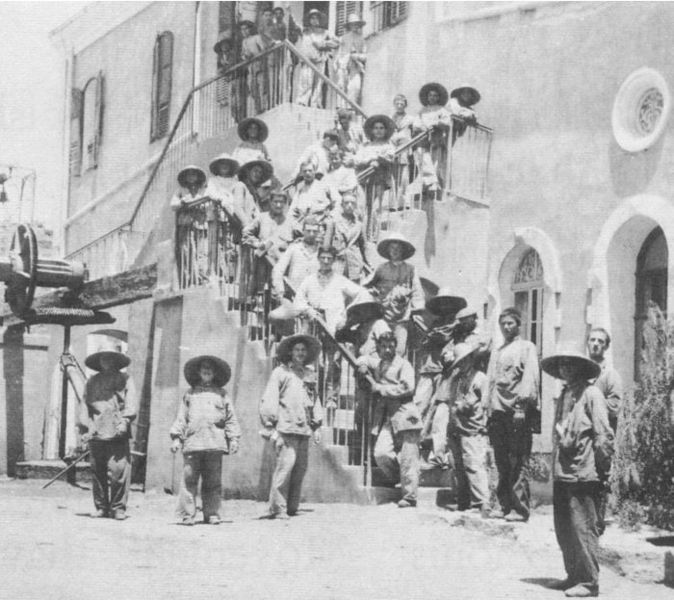 staff